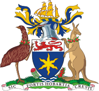 The Coat of arms of the city of Hobart (Tasmania) : Azure an Estoile Or on a Chief Argent a Lion passant Gules. Crest: On a Wreath Argent and Azure A three masted sailing Ship in full sail Or, Mantled Azure doubled Or. Supporters: On the dexter side an Emu and on the sinister side a Kangaroo both reguardant and each gorged with a chaplet of Apples leaved all proper. Motto: Sic Fortis Hobartia Crevit.